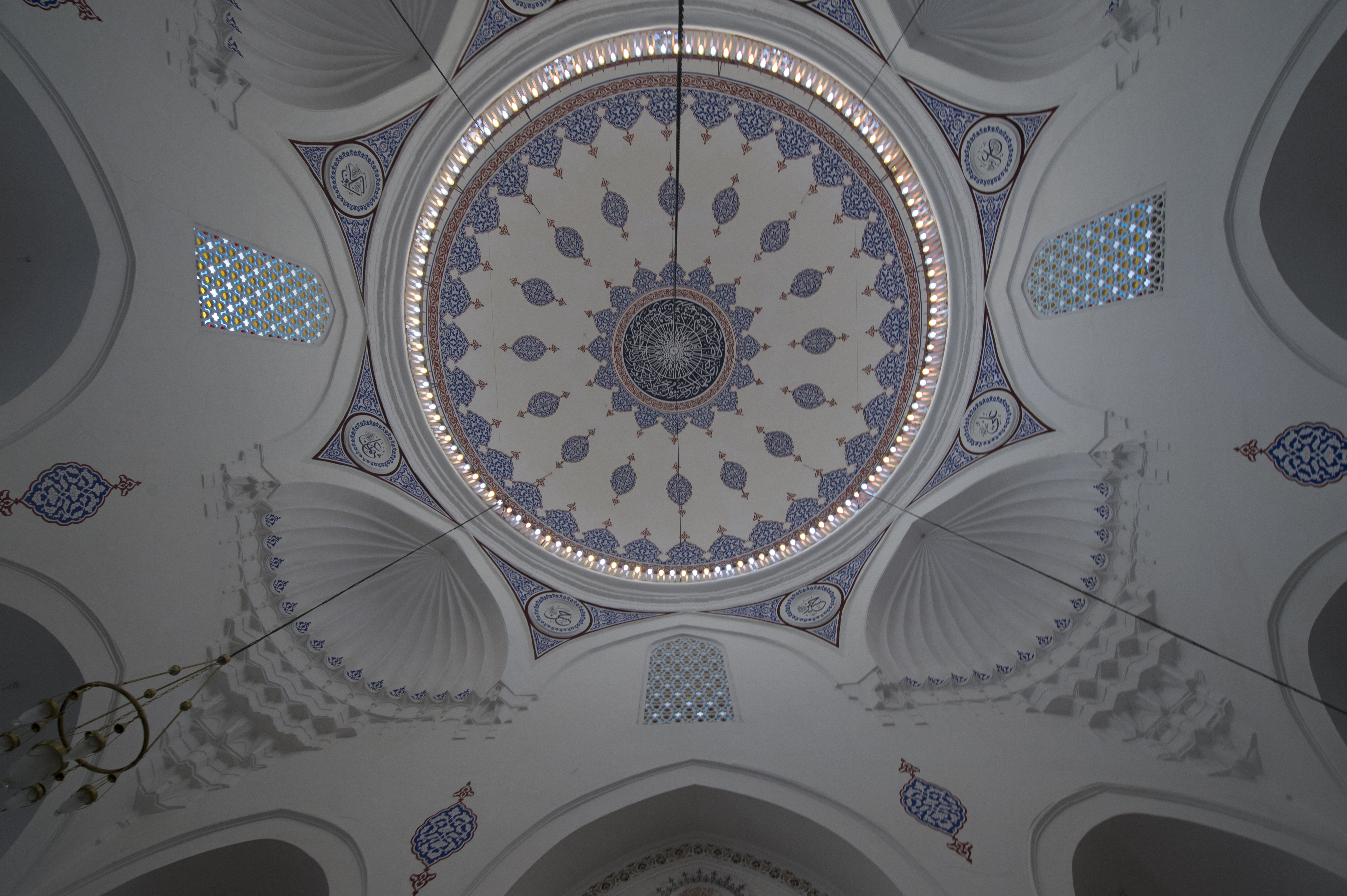 The mosque it is an octagon inscribed in a rectangle with galleries on each side. It has no columns but in the angles of the octagon shell-like pendentives support the dome.